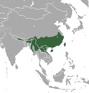 Chinese Pangolin (Manis pentadactyla) range